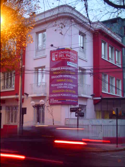 University of Pacifico (Chile), Baquedano campus